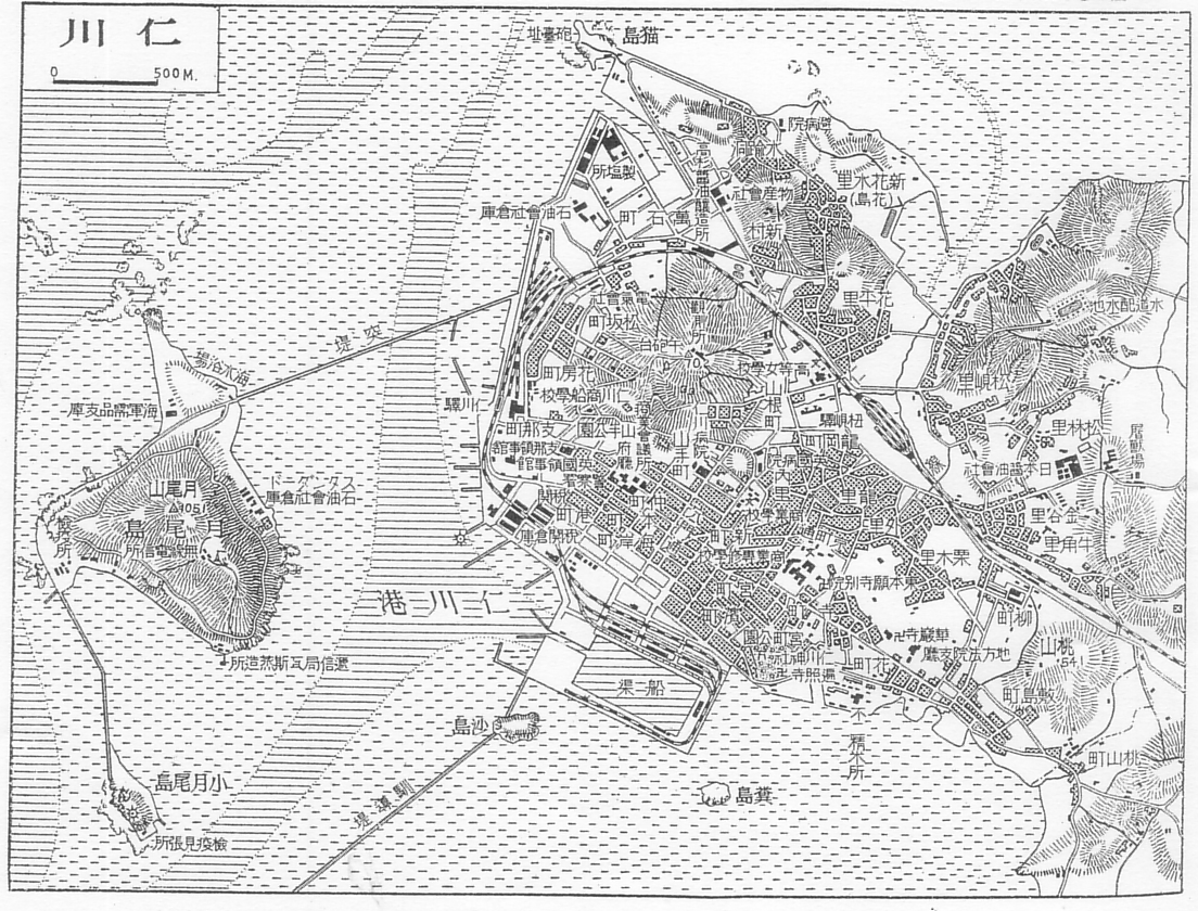 Jinsen(Incheon) map circa 1930